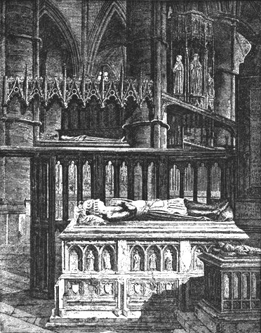 John of Eltham, Earl of Cornwall. Westminster Abbey. John of Eltham, 1st Earl of Cornwall (15 August 1316 – 13 September 1336) was the second son of Edward II of England and Isabella of France. He was heir apparent to the English throne until the birth of his nephew Edward, the Black Prince.